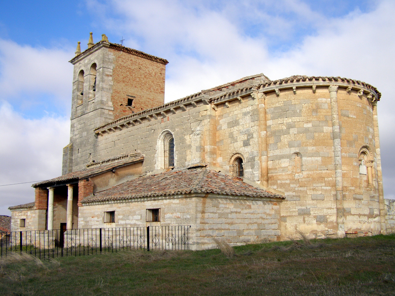 Church of Arenillas de Villadiego (Burgos) - Spain